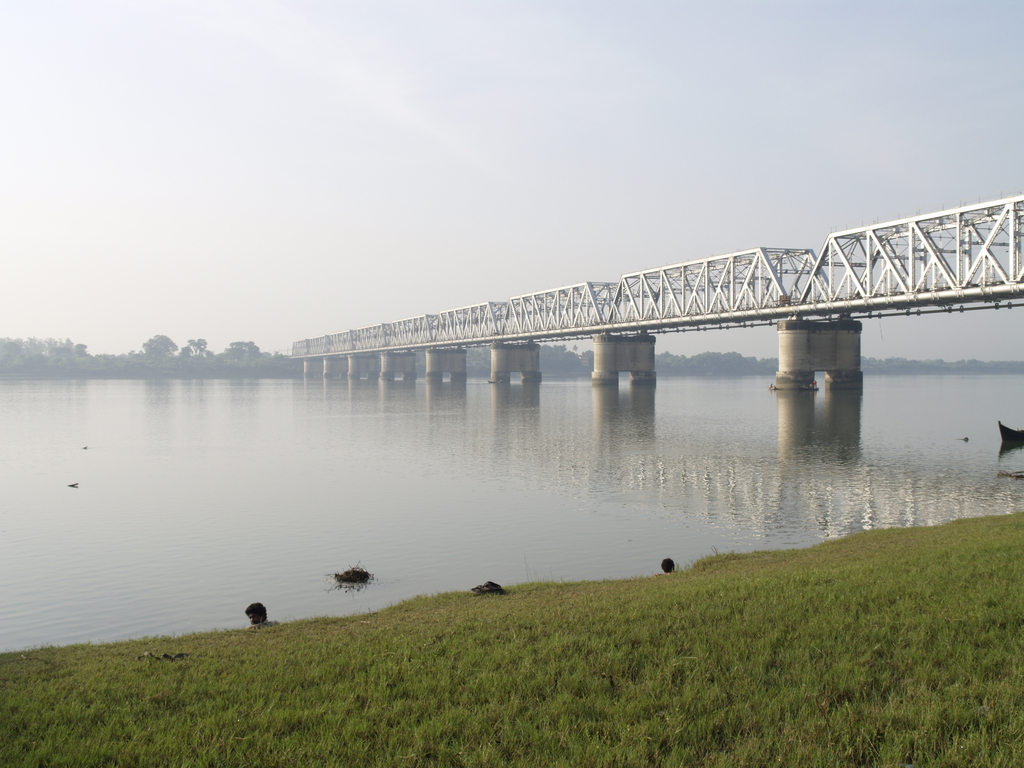 The Narmada river at Baruch, Gujarat, India